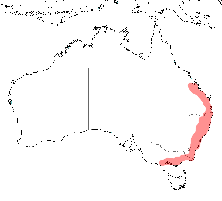 Distribution of Pteropus poliocephalus